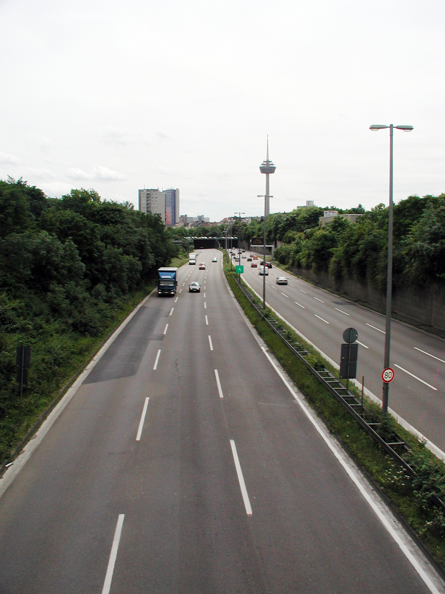 Cologne Parkgürtel, Kreisstraße 4 (K 4)